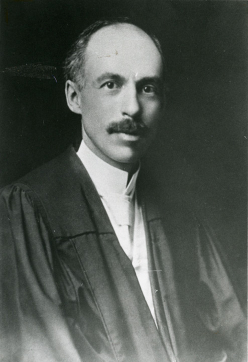 President James A. Blaisdell early in his 17-year tenure as the fourth president of Pomona College